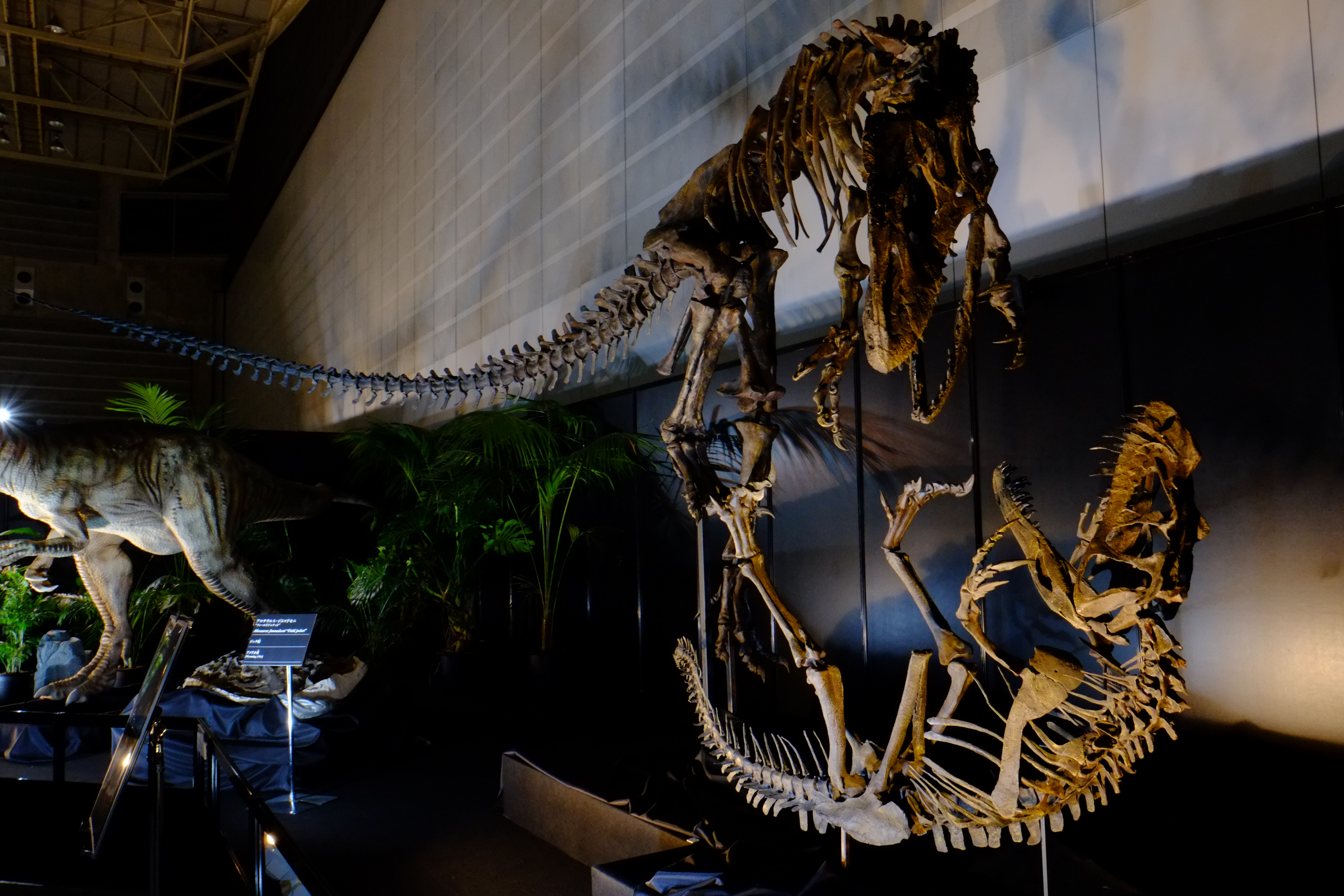 1枚目は顔が薄っぺらくなってしまったのでちょい角度変えて。